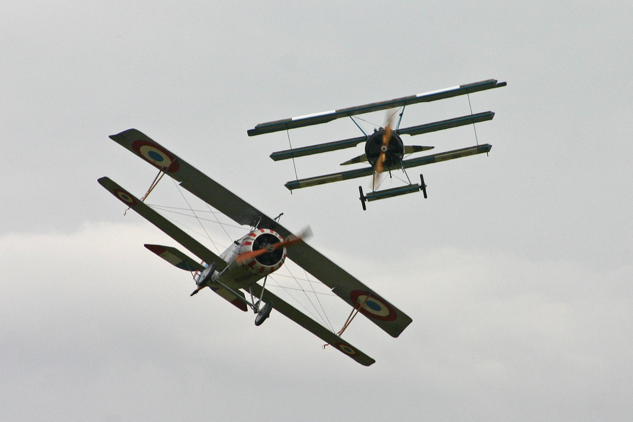 A well performed dogfight routine between 2 WW1 replicas. The Nieuport is 'N1977 / 8' (G-BWMJ) msn PFA/121-12351, while the Fokker DR.I is '403/17' (G-CDXR) msn PFA/238-14043. Flying Legends 2011. Duxford. 10-7-2011